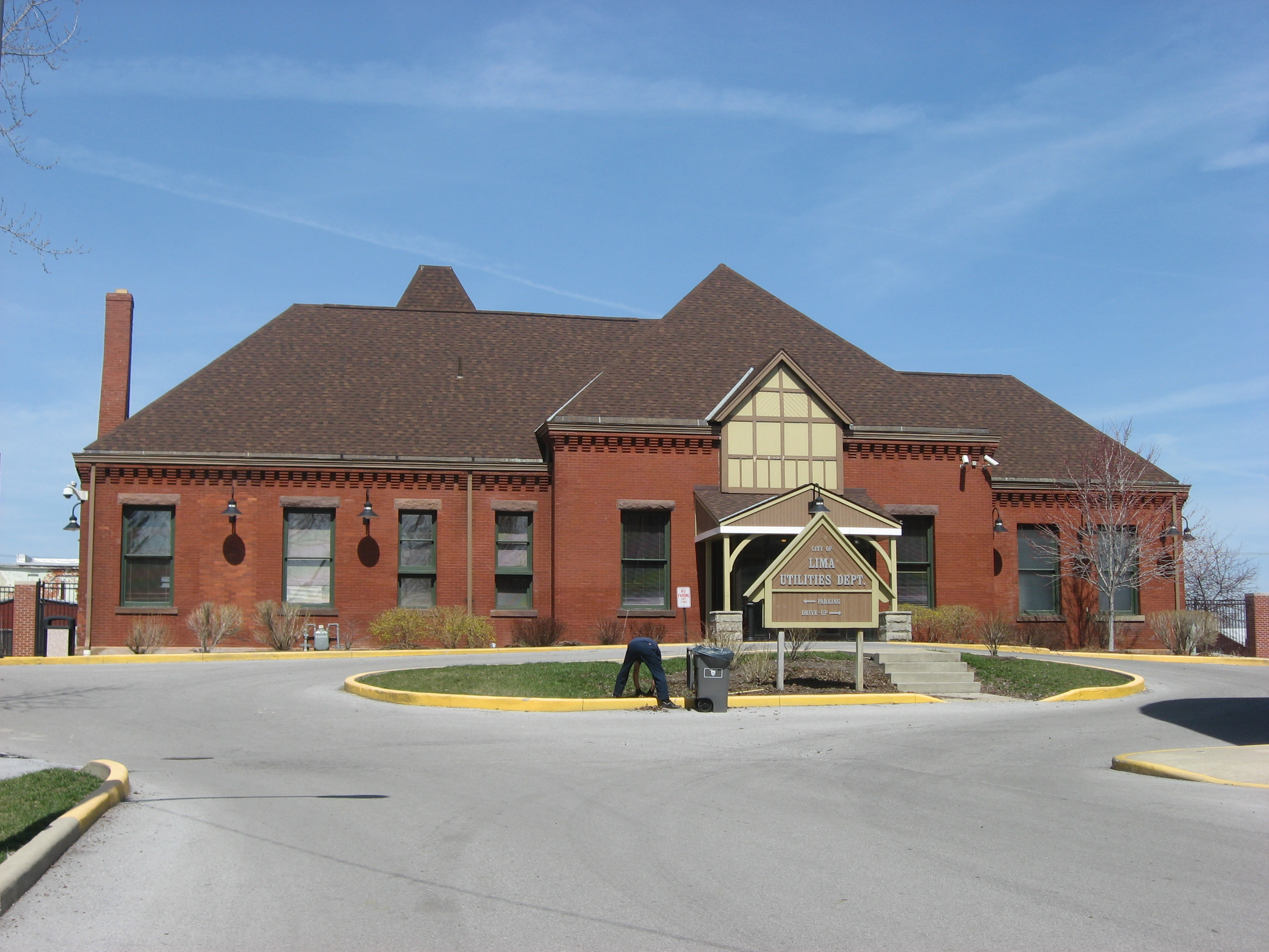 Front of the Lima Pennsylvania Railroad Passenger Depot, located at 424 N. Central Avenue in Lima, Ohio, United States. Built in 1887, it is listed on the National Register of Historic Places.